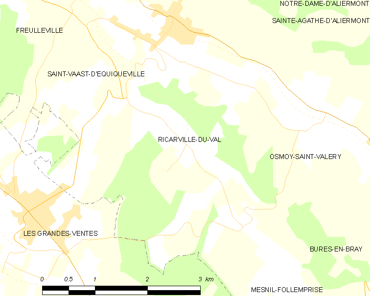 Map of French municipality Ricarville-du-Val